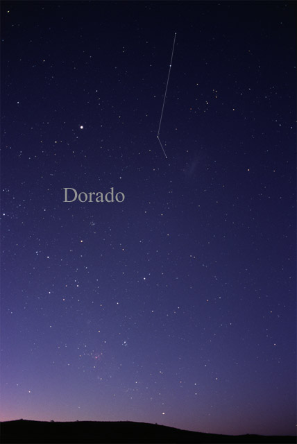 Photo of the constellation Dorado, the Swordfish